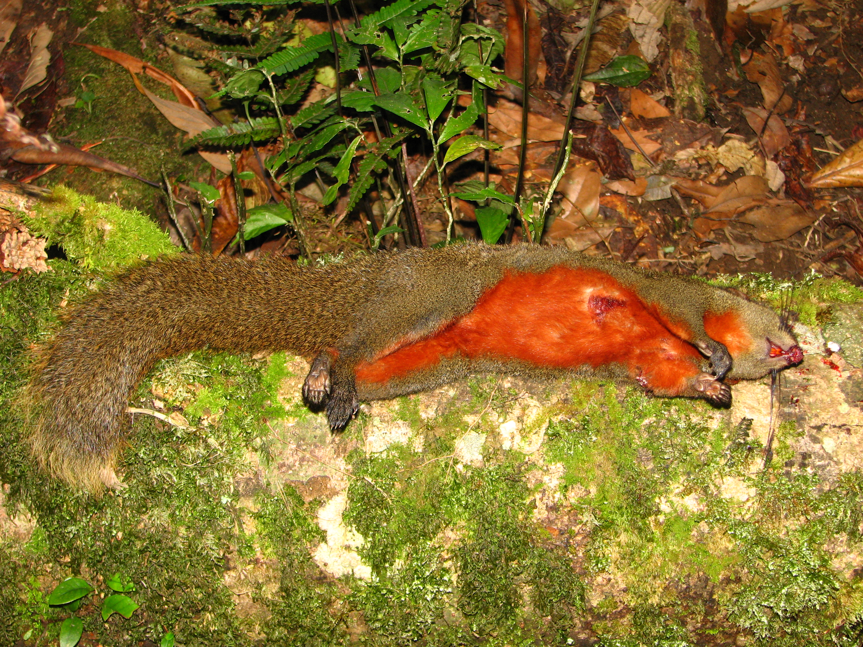 Mehao, Lower Dibang Valley, Arunachal Pradesh